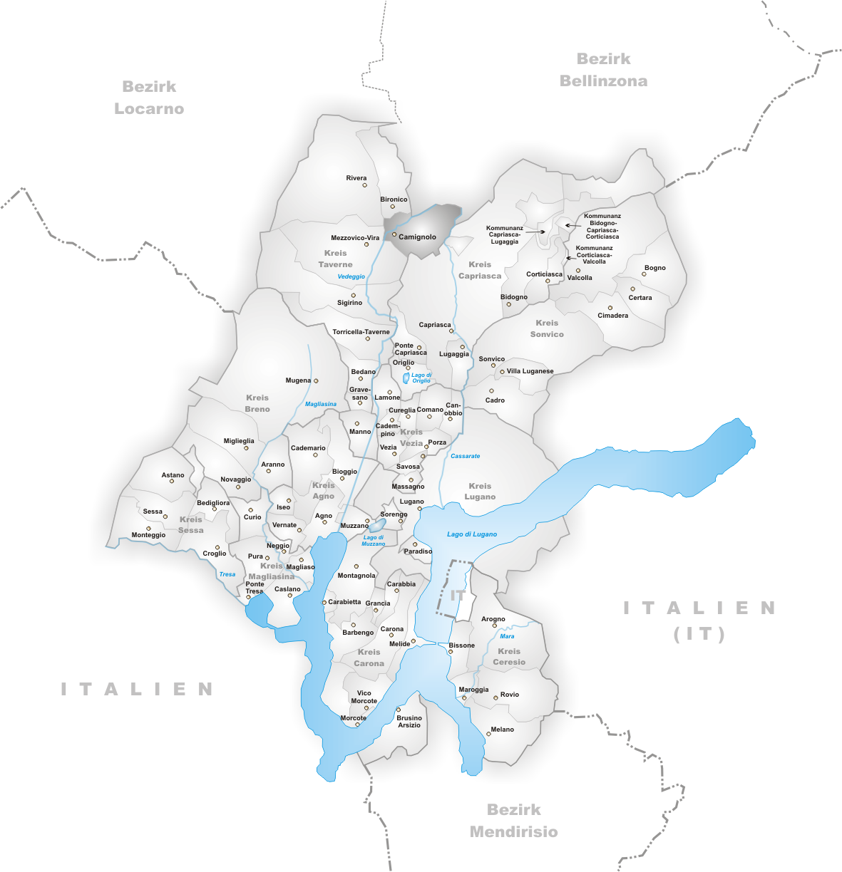 Municipality Camignolo